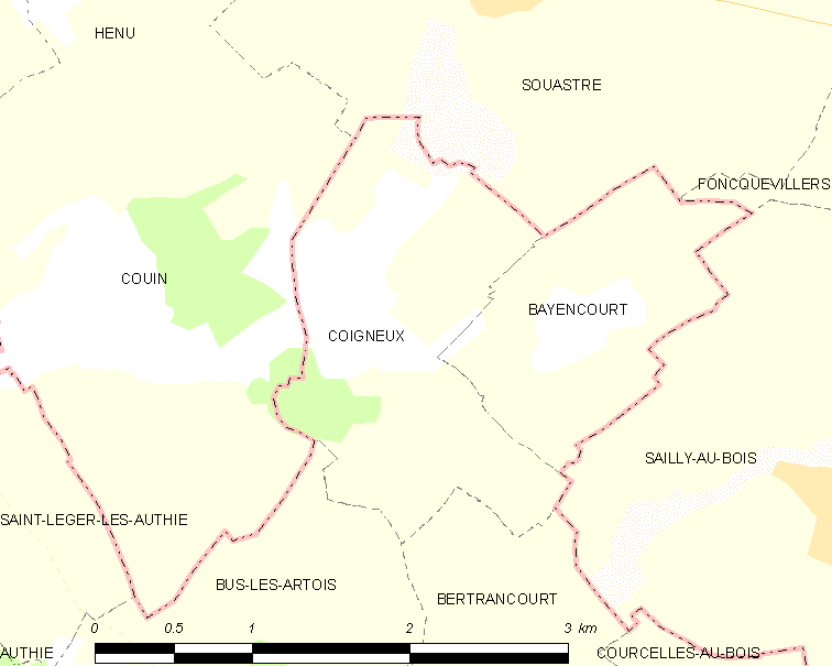 Map of French municipality Coigneux